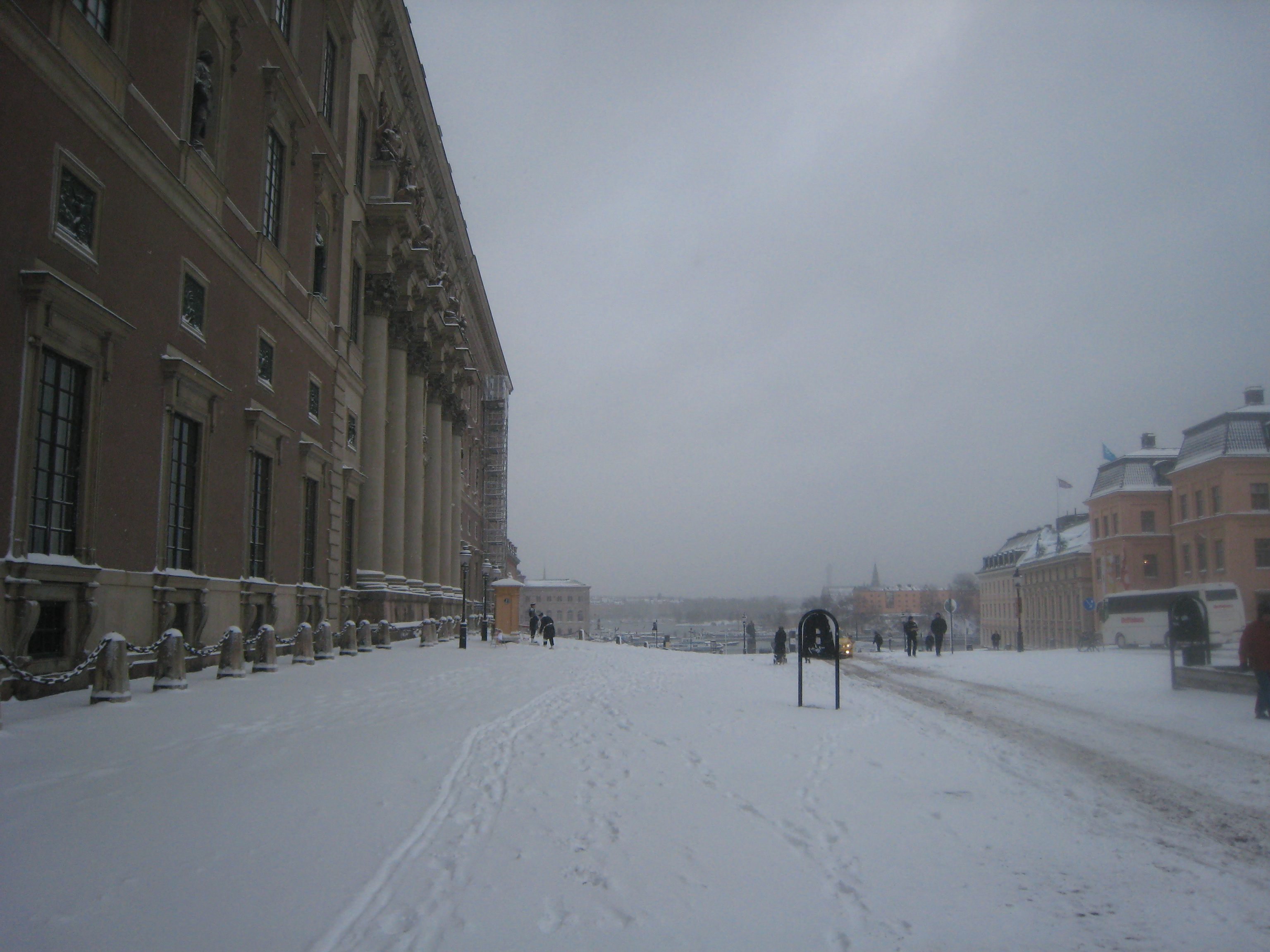 Slottsbacken